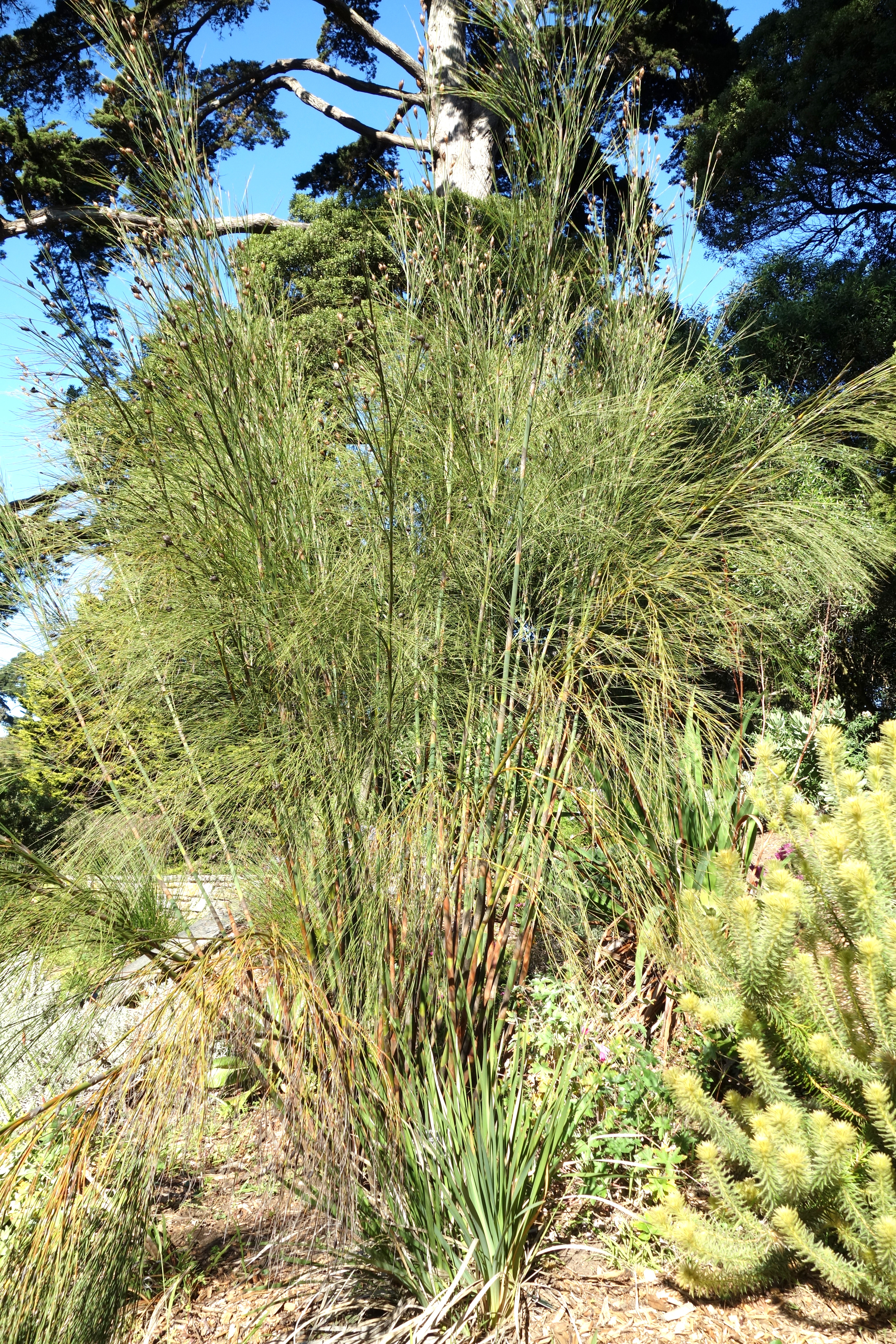 Botanical specimen in the San Francisco Botanical Garden, San Francisco, California, USA.